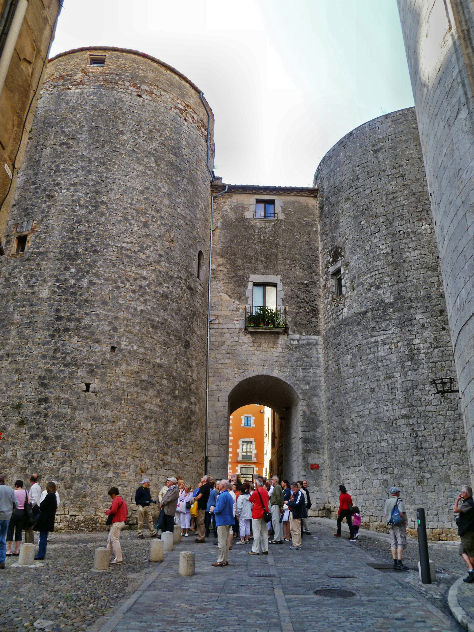 City wall and towers (near the Cathedral) of Girona, Spain